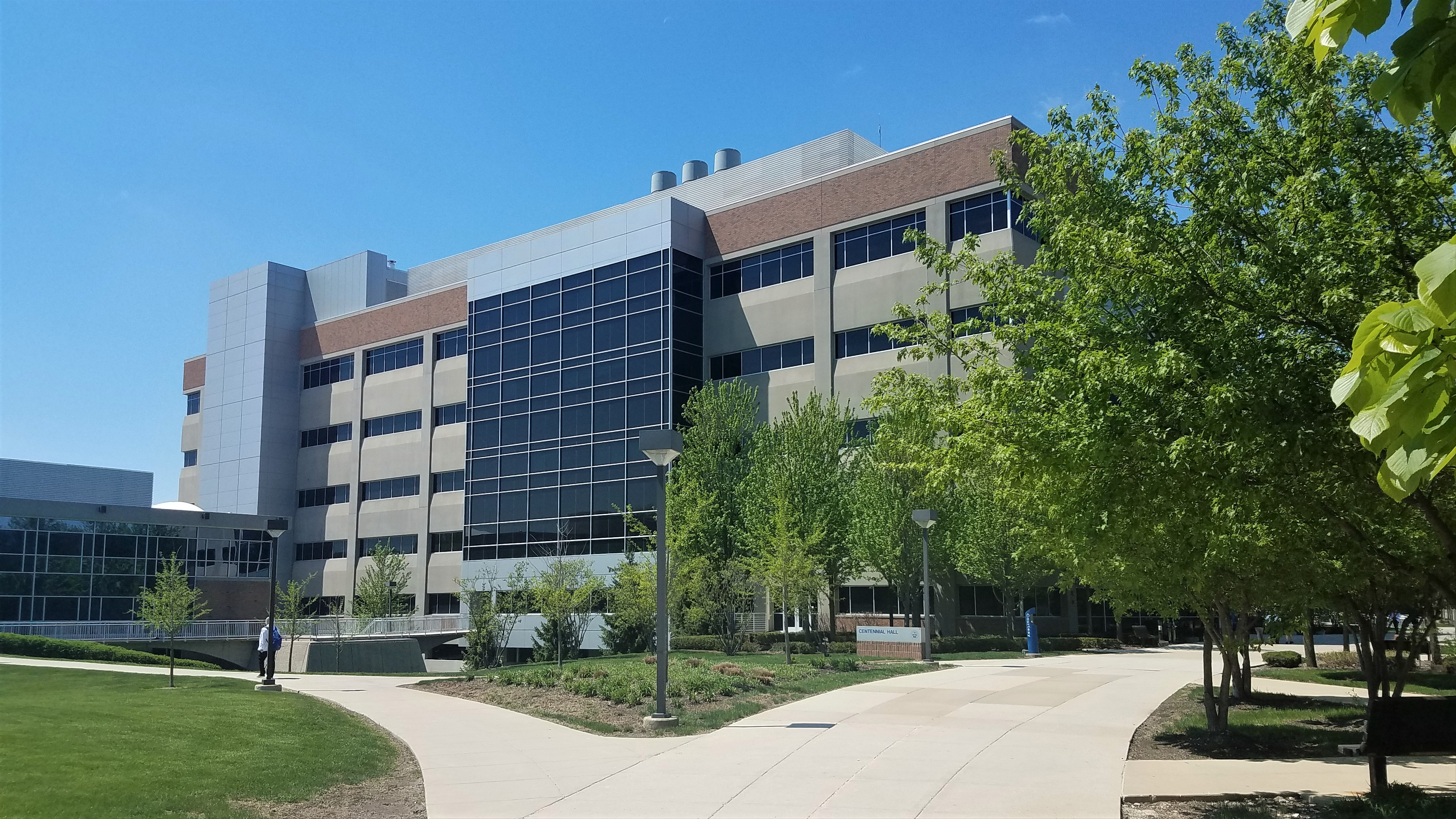 Science Hall on the Downers Grove campus of Midwestern University.